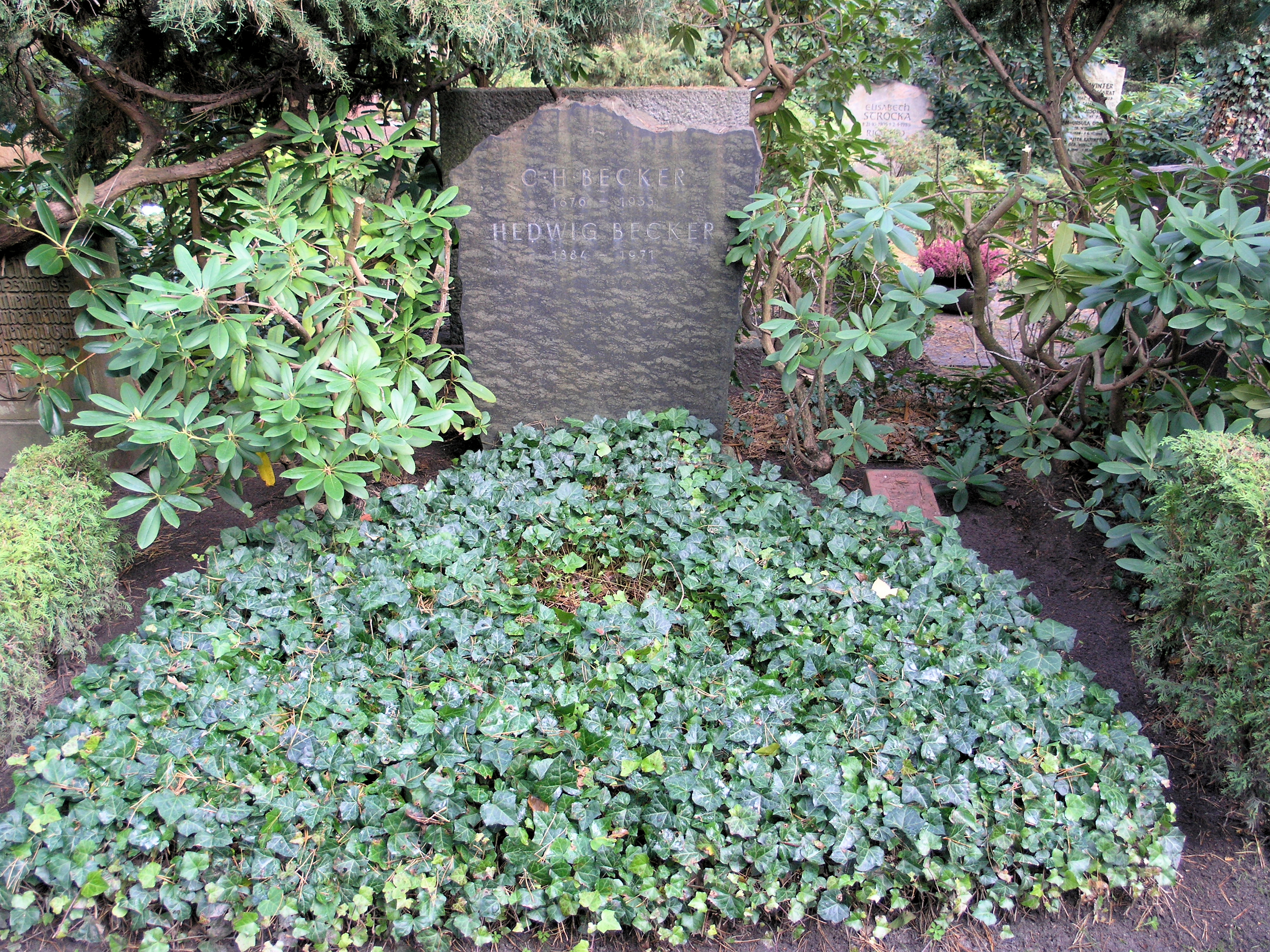 "Ehrengrab" (grave of honor), Carl Heinrich Becker, Hüttenweg 47, Berlin-Dahlem, Germany Koordinate:52°27′20″N 13°15′49″E / 52.45556°N 13.26361°E